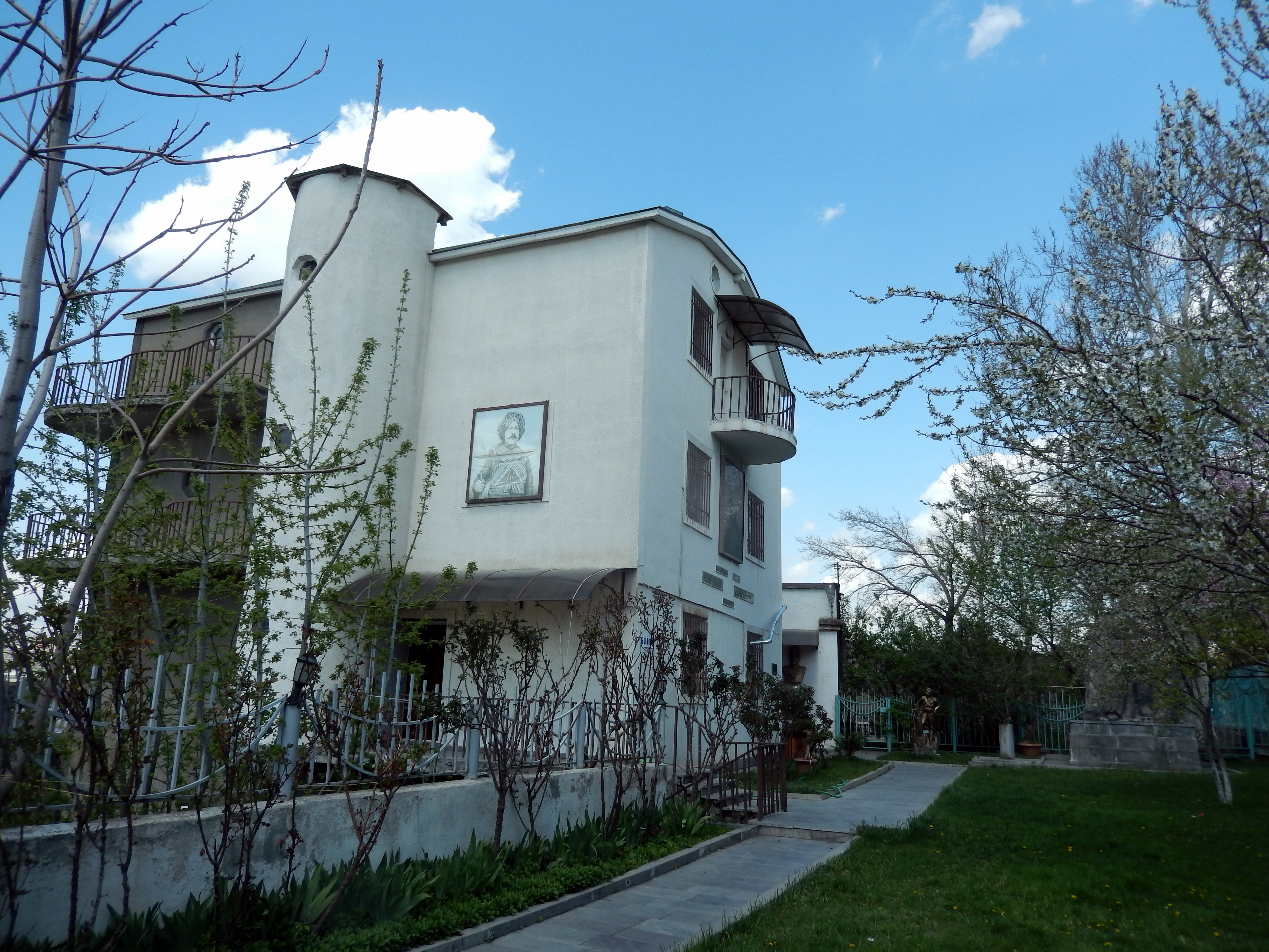 General Andranik Museum. - Kashegortsneri 233, Yerevan, (Close to Komitas Park) Object location40° 09′ 37.69″ N, 44° 30′ 04.71″ E